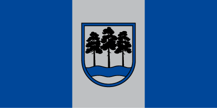 Flag of Ogre municipality